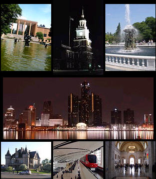 Thomas paine's photo montage of Detroit pics. From top to bottom and left to right: Cranbrook Educational Community. The Henry Ford clock tower. Detroit Zoo fountain. Detroit skyline. Hecker House in Detroit. Detroit Metro Airport's Edward H. McNamara Terminal Detroit Institute of Arts